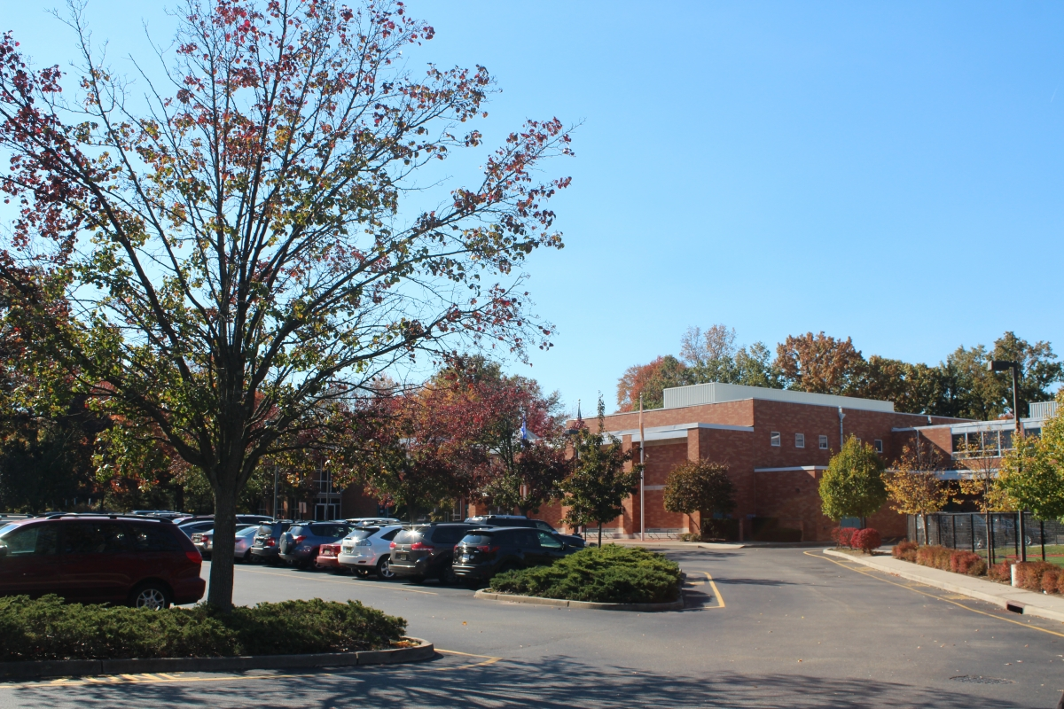 Solomon Schechter Day School of Bergen County Campus - Front view